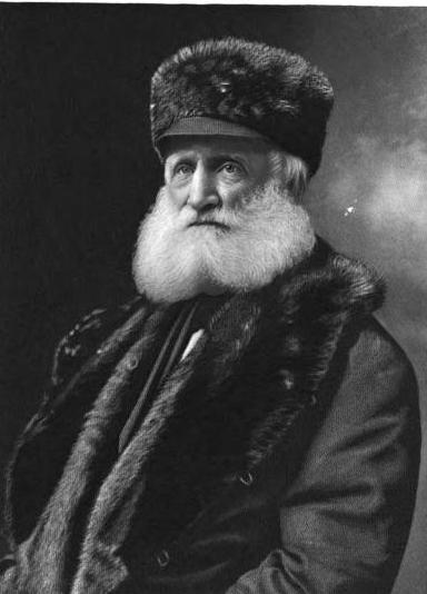 Picture of businessman Frederick Ayer.